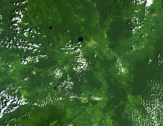 Three lakes (maars) of Tombel Graben between Mount Cameroon (lower left) and lava flows from Manengouba volcano (top). The largest circular lake, just above center, is Lake Barombi Mbo. The two smaller circular lakes are Lake Dissoni in the north and Lake Barombi Koto in the south. The river running from the northeastern corner and south is the Mungo River.